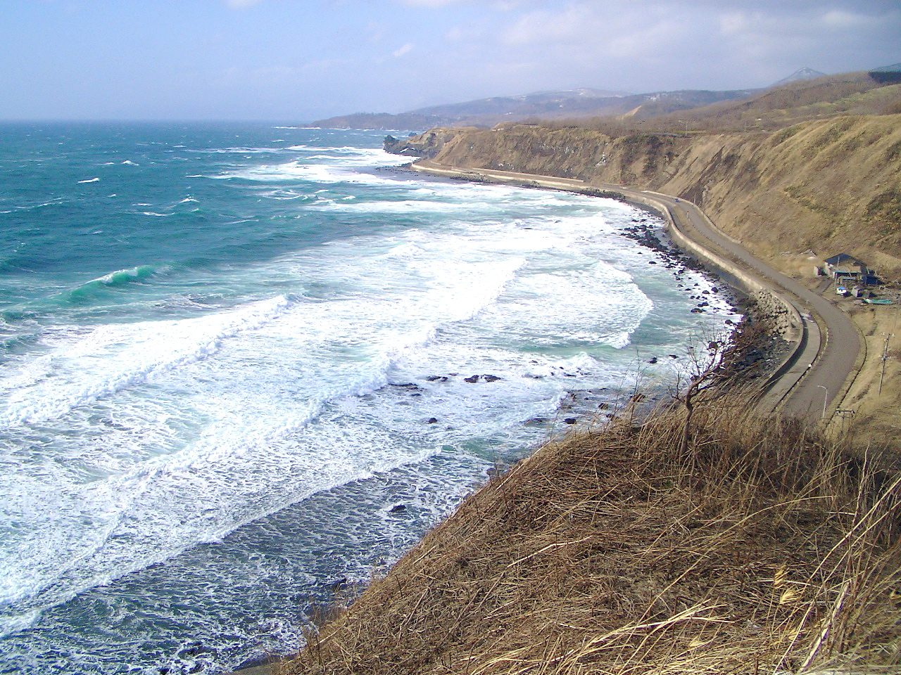 Cape Toppu in Otobe, Hokkaido